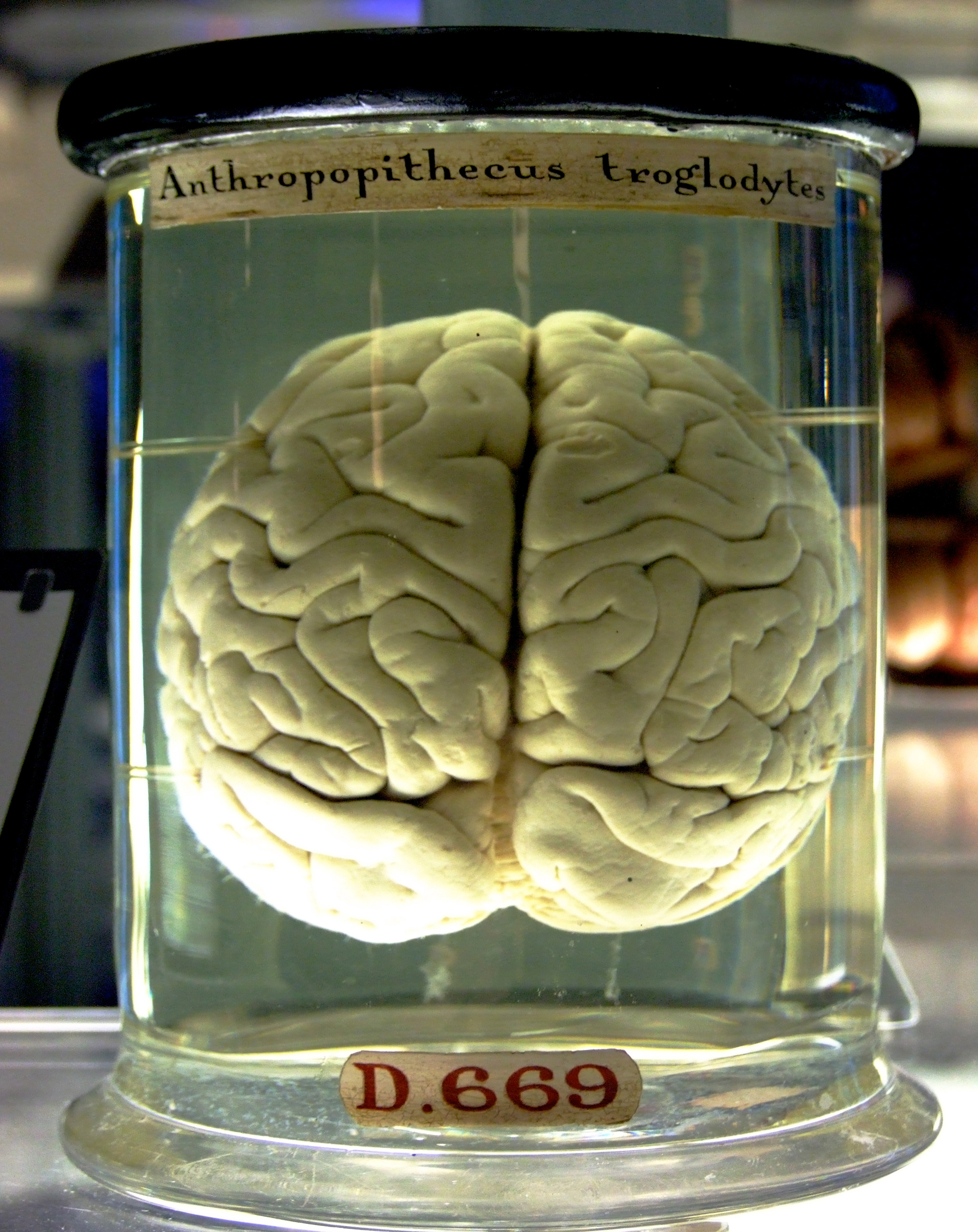 A chimpanzee brain at the Science Museum London. The label "Anthropopithecus troglodytes" includes the deprecated synonym Anthropopithecus of the current chimpanzee genus designation Pan.